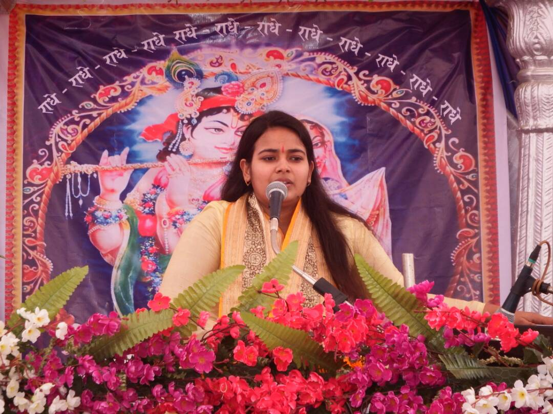 hindi